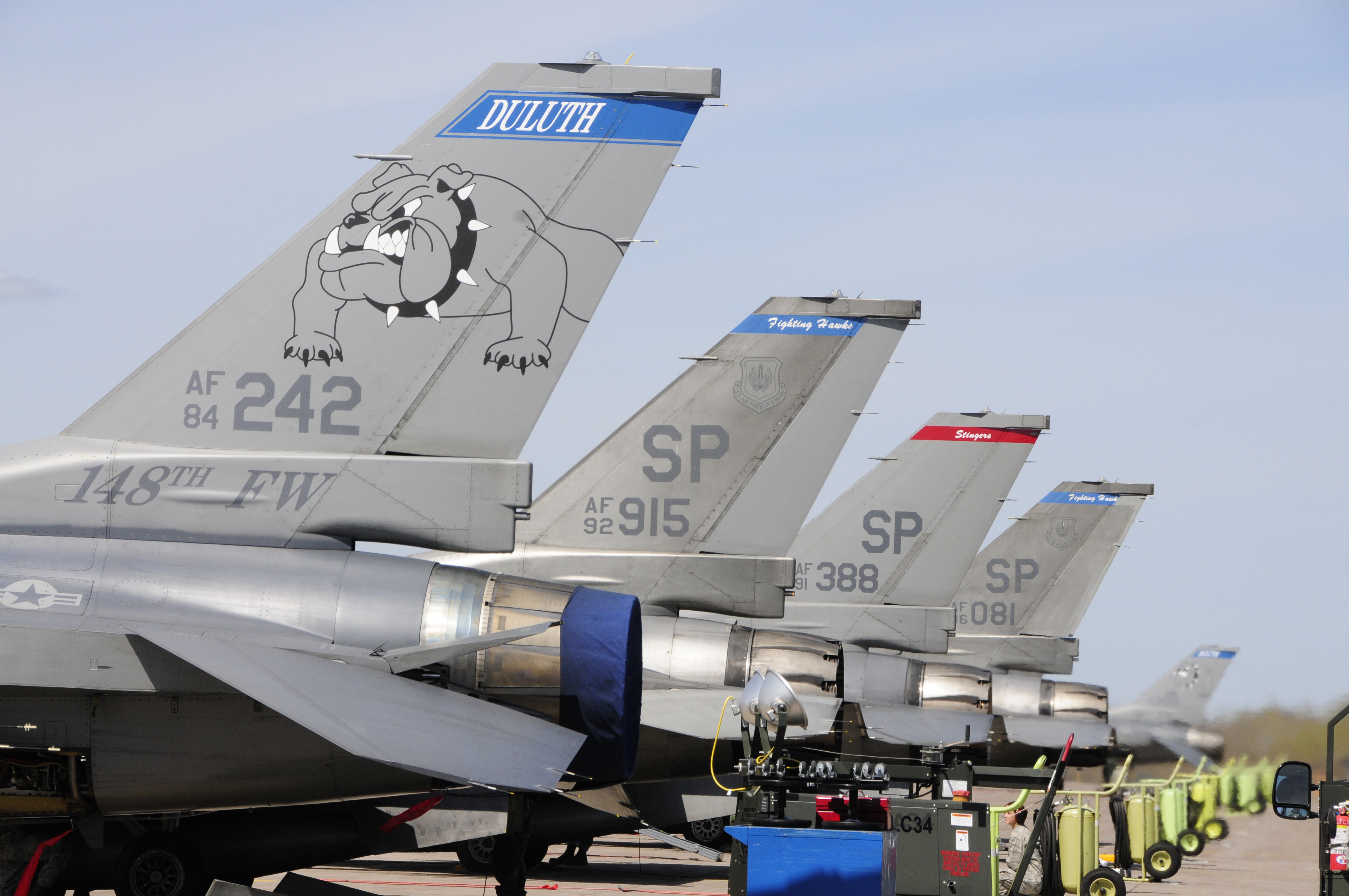 Three U.S. Air Force General Dynamics F-16CJ Block 50 Fighting Falcons (s/n 91-388, 92-915, 96-081) from the 52nd Fighter Wing, Spangdahlem Air Base, Germany after arriving at the 148th Fighter Wing Air National Guard Base, Duluth, Minnesota (USA) on 27 April 2010. The aircraft were the first block 50 F-16s to arrive at the wing as the unit became the first Air National Guard unit to convert to the Block 50 aircraft from active duty units. In front is an F-16C Block 25C (s/n 84-1242) from the 148th FW that was replaced.